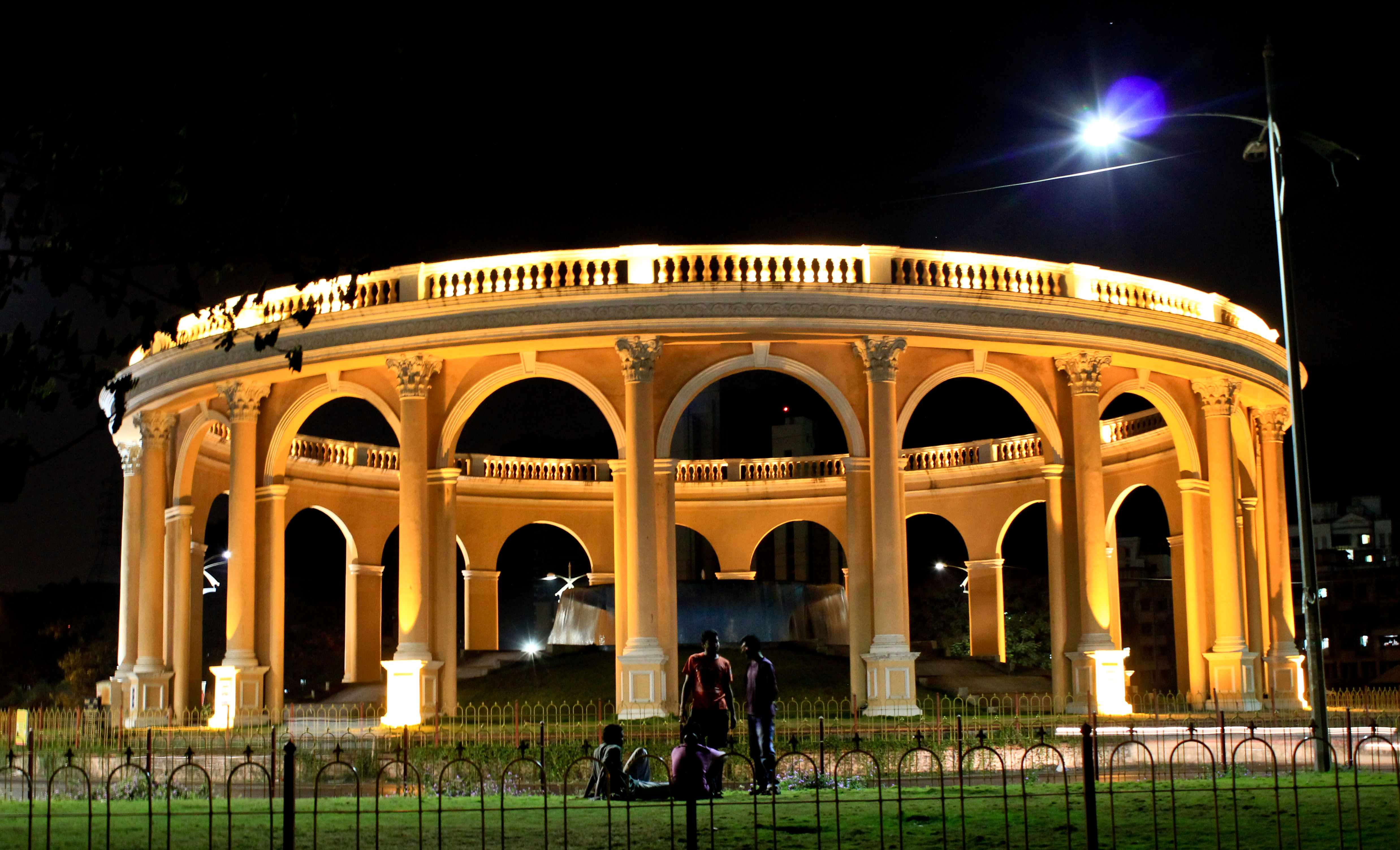 This is clicked by me using Canon 550D SLR with 18-55 mm EF lens.